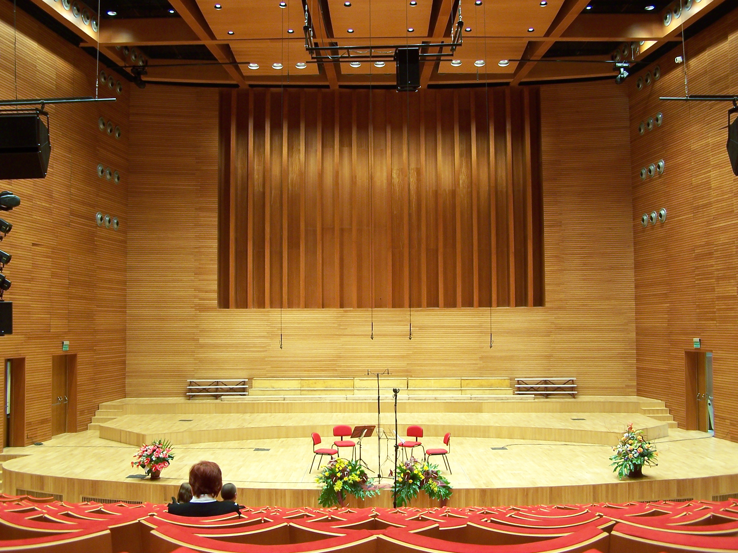 Academy of Music in Katowice.